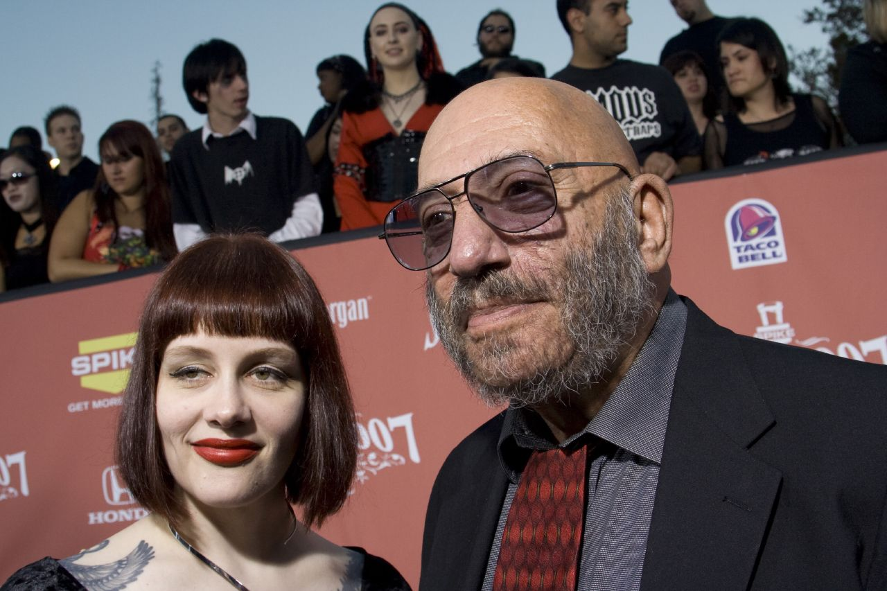 American film actor Sid Haig with his wife (probably Susan L. Oberg). Taken at the 2007 Scream Awards